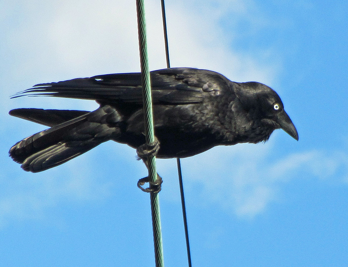 Corvus coronoides in Sidney, Australia.